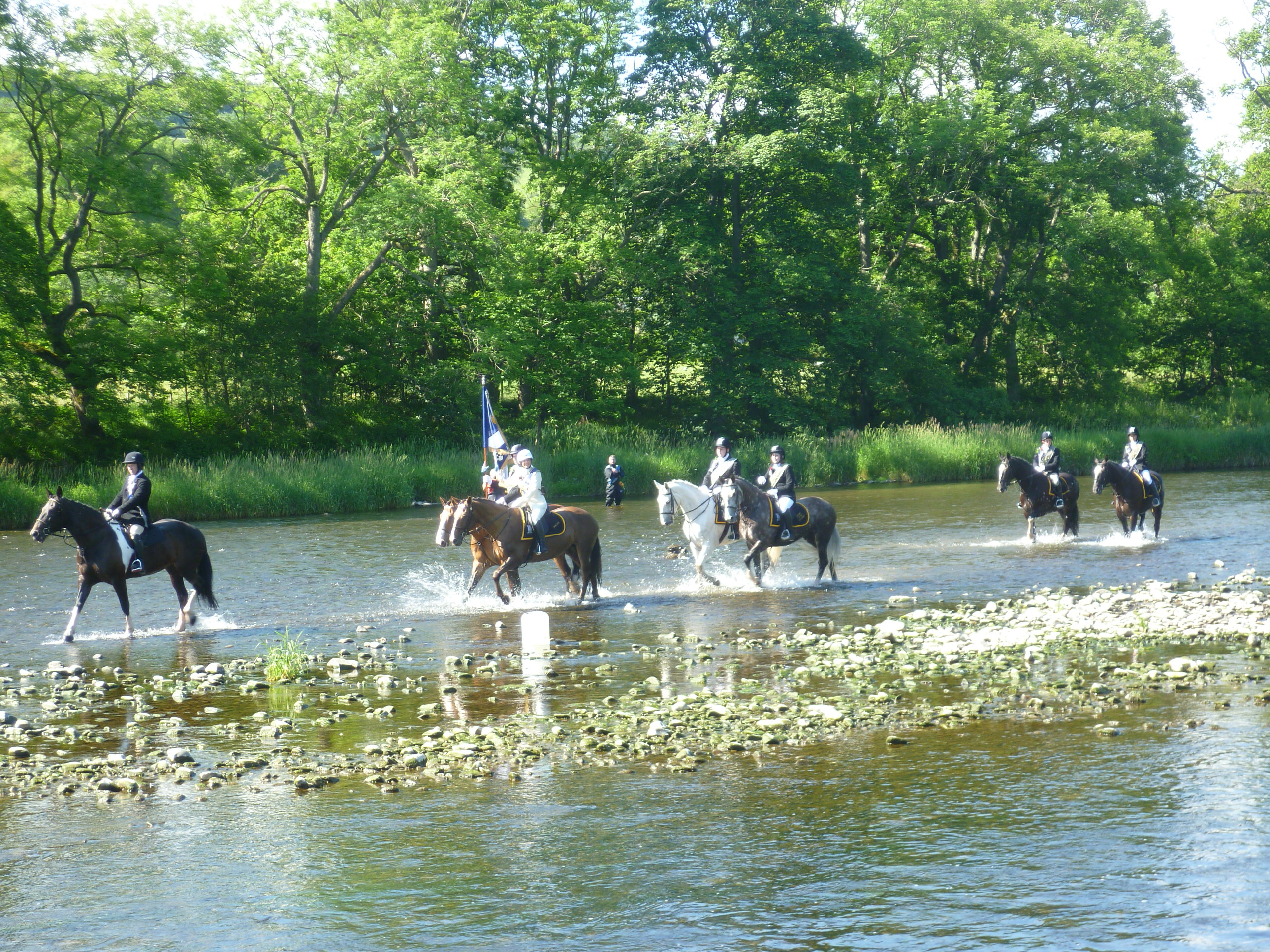 The Braw Lad and Lass crossing the Tweed on the morning of the Braw Lads Gathering